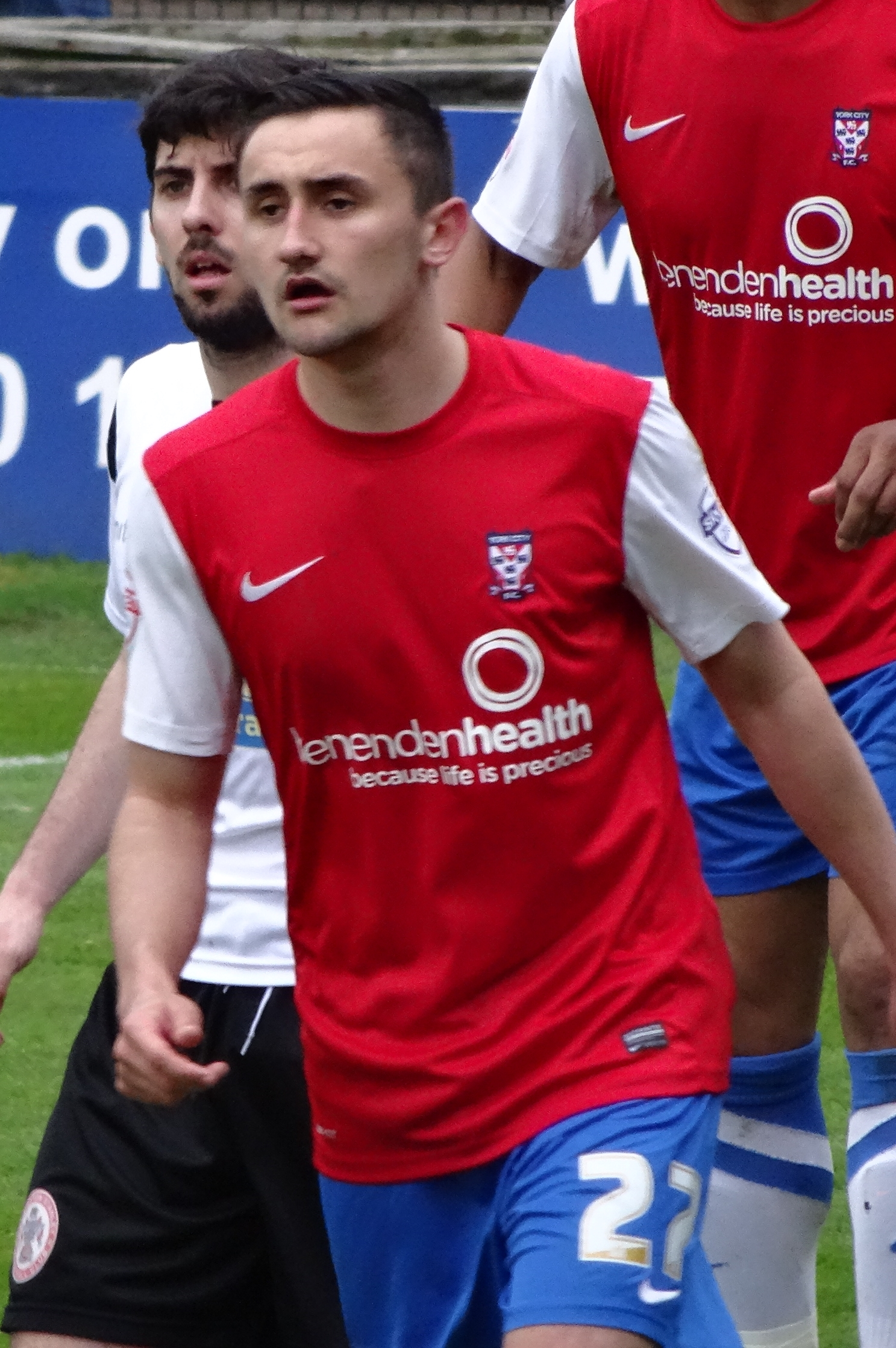 Ryan Brobbel playing for York City against Accrington Stanley at Bootham Crescent, York on 12 April 2014